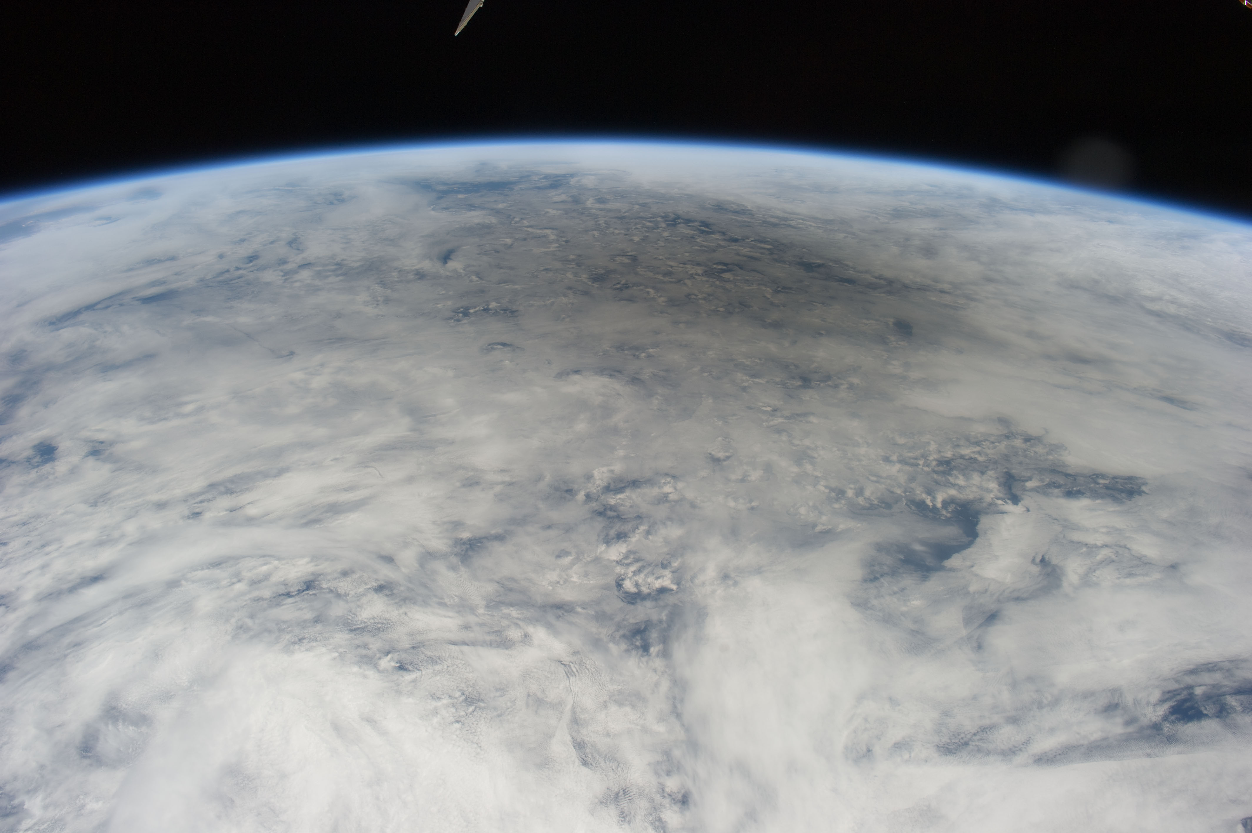 Photographed by the Expedition 31 crew aboard the International Space Station and easily spotted at top center in this image is the gray shadow of the moon, cast on bright clouds of the northern Pacific Ocean, as the May 20 solar eclipse point tracked towards the Aleutian Islands and then on to northern California. The eclipse is seen obliquely so it appears as a flattened circle. The eclipse was visible for about 3.5 hours, and since the ISS orbits Earth every 90 minutes there was a chance that the ISS crew would see (if not the total eclipse by looking directly overhead), some evidence at least in the form of a partial eclipse. Only since the start of human spaceflight could such an image have been shot, looking back at the moon's shadow projected against Earth. As it happened, say NASA scientists, the timing was almost as good as if it had been planned. The space station passed "behind" the eclipse on May 20, that is, the shadow of the eclipse passed the point in the Northwest Pacific Ocean only three minutes before the station crossed the same point. But the crew was still able to see the densest part of the shadow a little more than 600 kilometers to the northeast of their position when they shot this photograph. The edge of the shadow looks diffused because of the partial eclipse zone—the wide area where more or less of the sun can be seen around the edge of the moon. The zone of partial eclipse covers a far wider area than the area covered by the total eclipse. Twenty-six minutes later, as they approached Antarctica in the other hemisphere, the six-member crew saw the sun set as they passed onto the dark side of the planet.